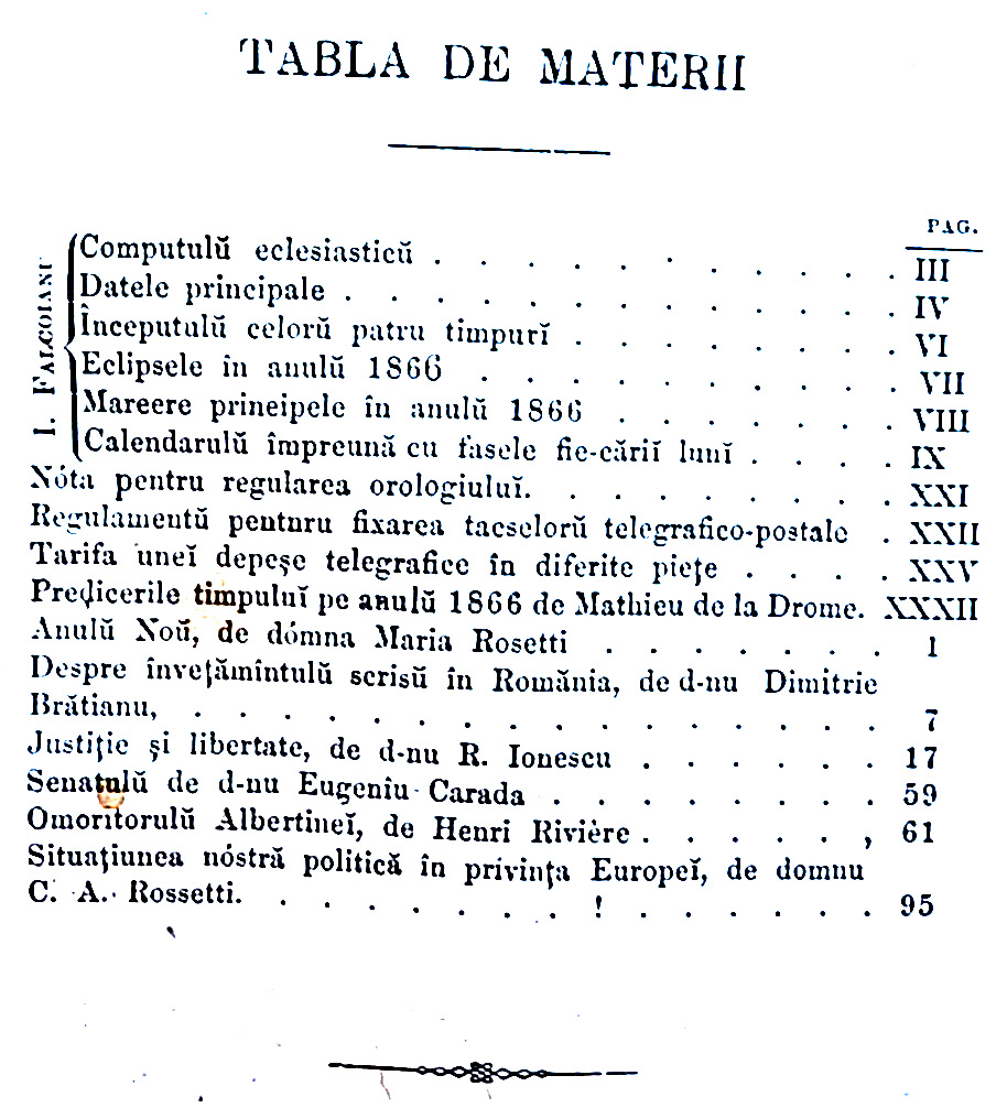 Contents page of Calendarulŭ Romanului pe anulŭ 1866, an almanac put out by C. A. Rosetti's newspaper Românul. The credited contributors are Ioan Fălcoianu (for the calendar) and journalists C. A. Rosetti, Maria Rosetti, Dimitrie Brătianu, Radu Ionescu, Eugeniu Carada. Translations from Henri Rivière and Mathieu de la Drôme.